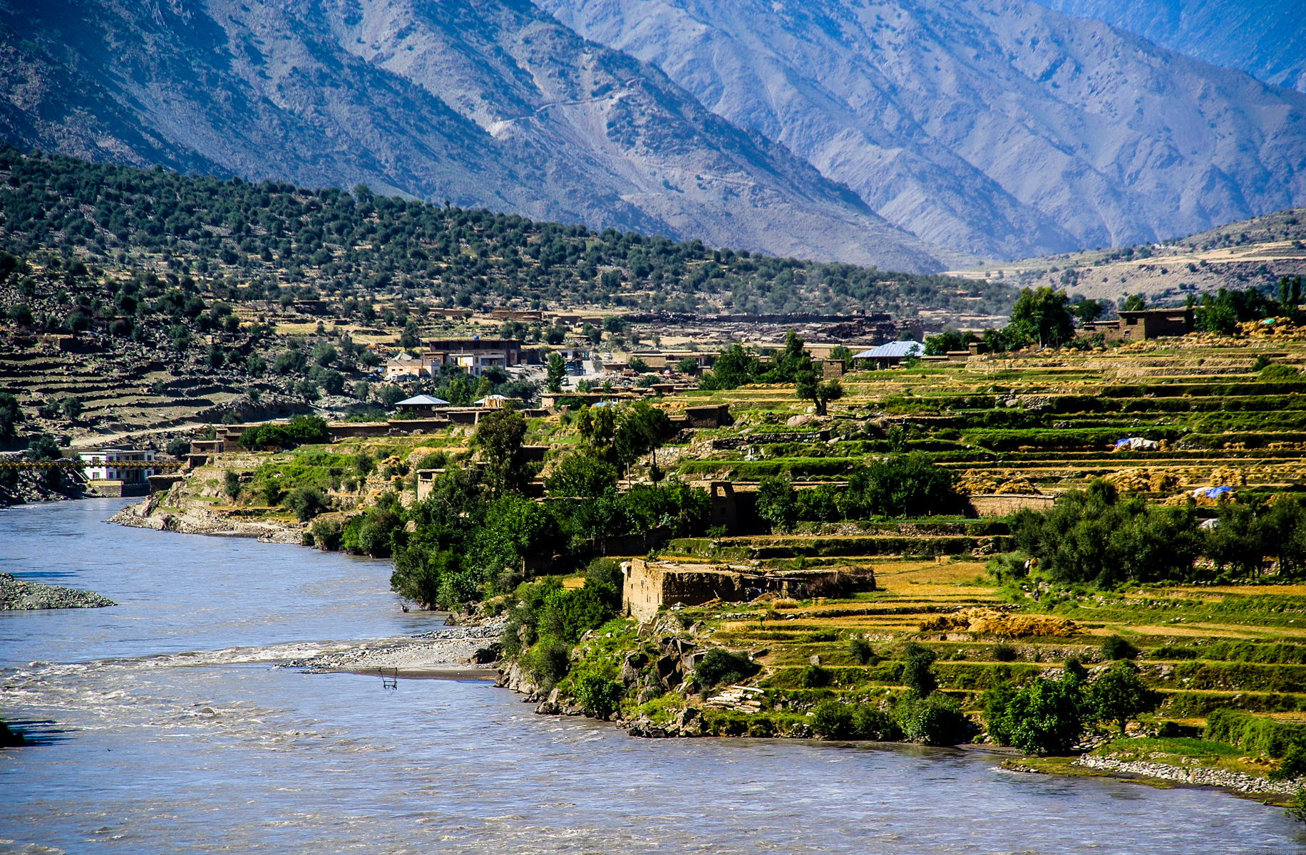 Taken in naray afghanistan